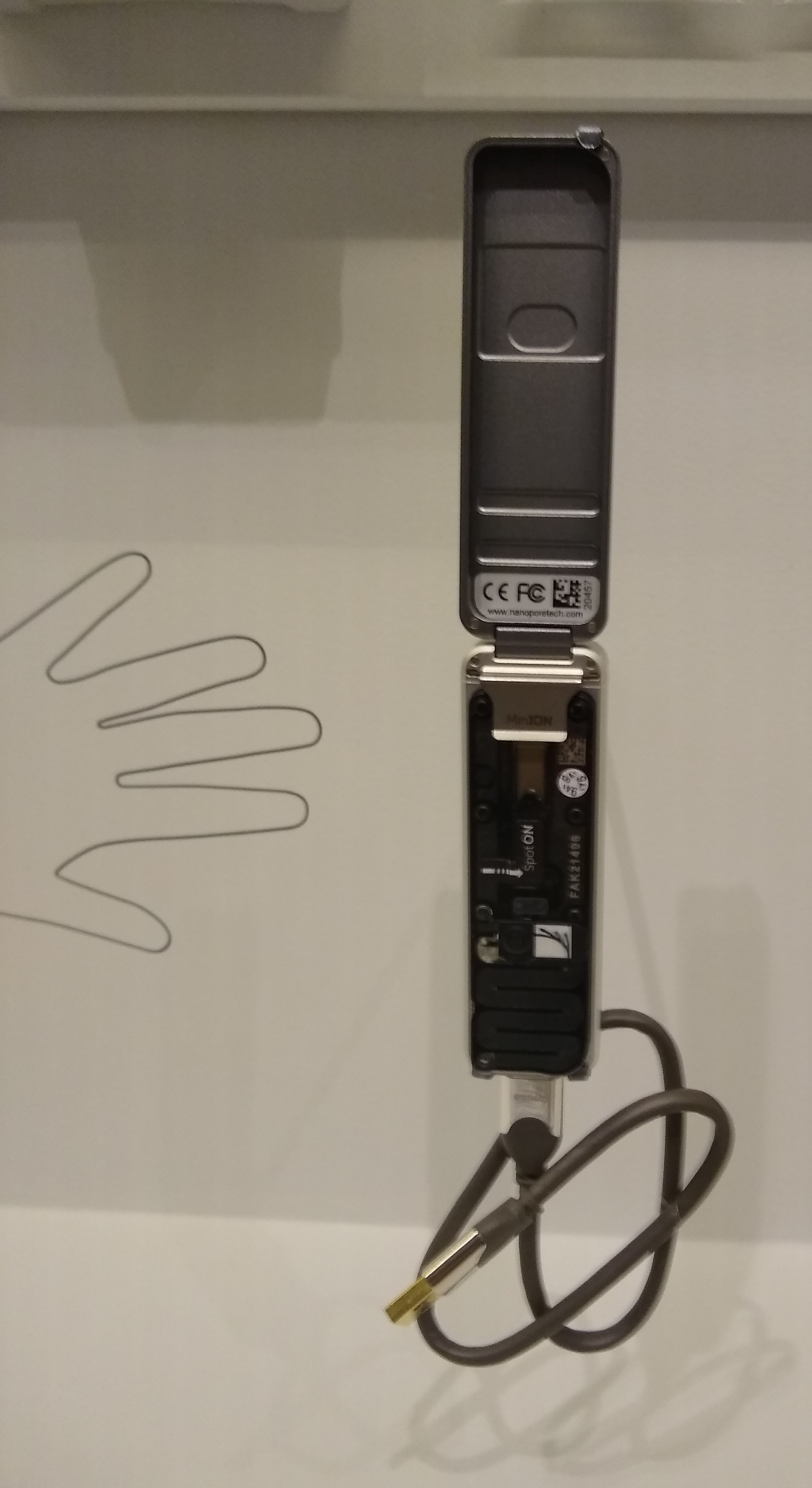 MinION Portable Gene Sequencer 2015, designed by Oxford Nanopore Technologies. Displayed as part of the exhibit "Designs for Different Futures" at the Philadelphia Museum of Art 2019-2020. This hand-held gene sequencer can be plugged into any computer and could enable citizen scientists or health workers in the field to collect and process scientific data in real time, collecting check swabs, plant matter or other samples.